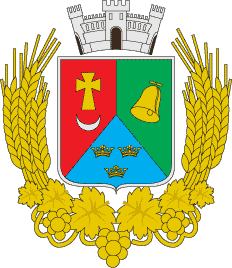 Coat of Arms of Beryslavskyj raion